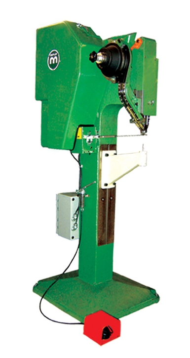 Milford impact riveting machine